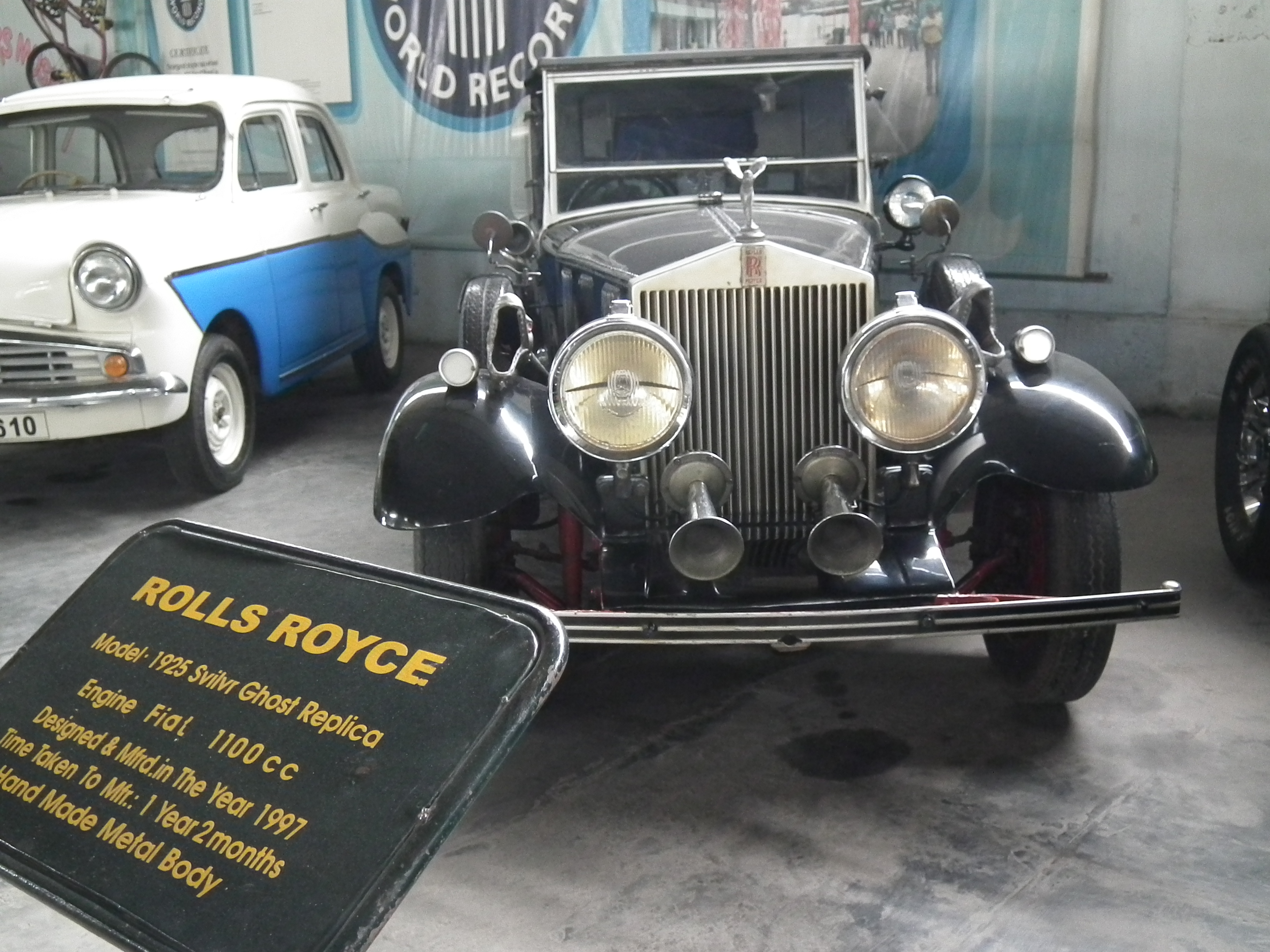 Photo from Sudha Cars Museum in Hyderabad, India